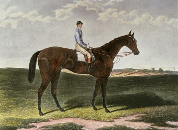 Coloured engraving of 1859 Epsom Derby winner "Musjid". By Charled Hunt & Son. Painting by Charles Hunt & Son.